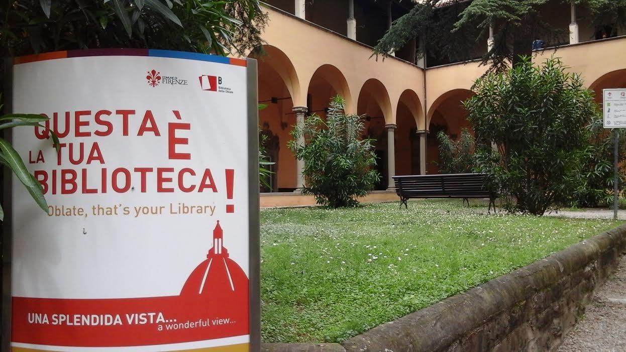 Ingresso dal giardino di Via dell'Oriuolo 24